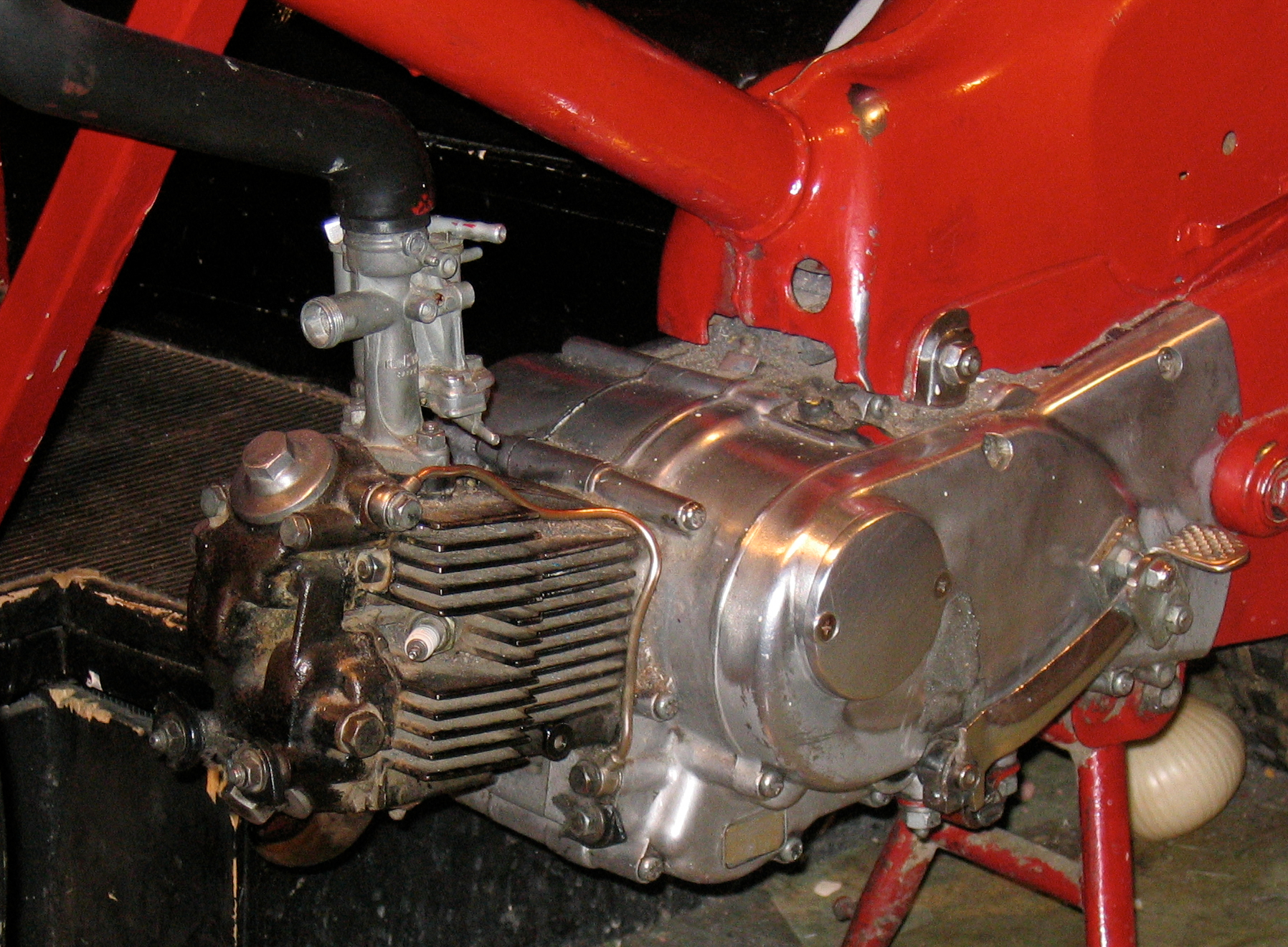 Honda Super Cub at the Seattle Children's Museum